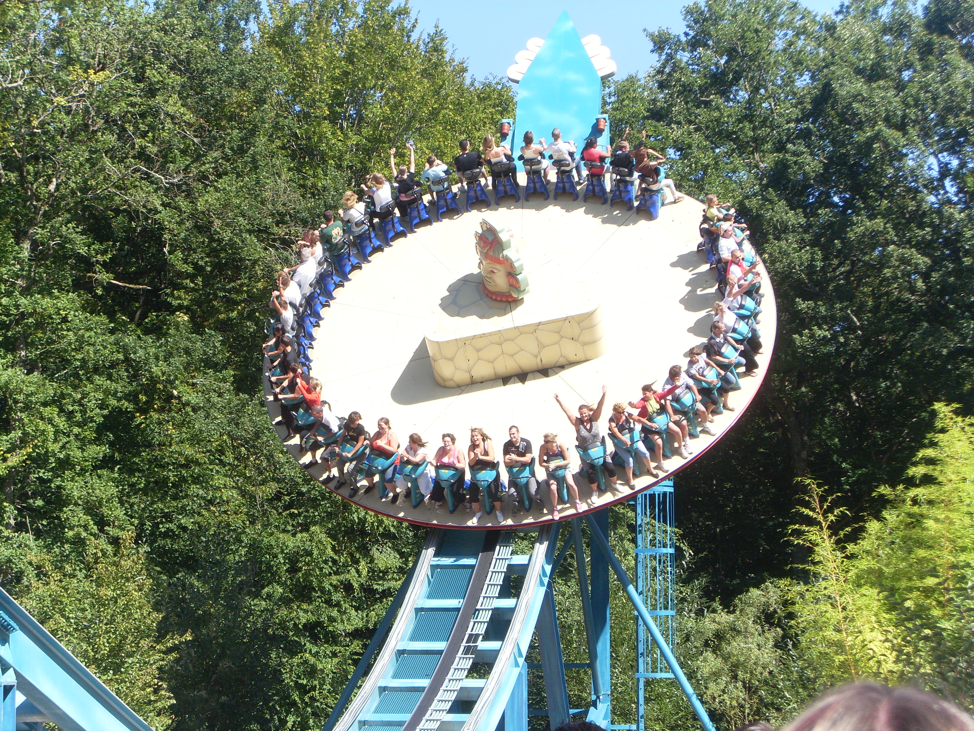 "Le Disque du Soleil" at park Le Pal.